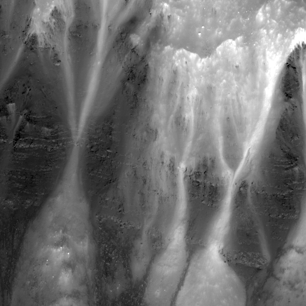 Bright talus winds downslope through crags and crannies in the banded scarps exposed in the east wall of Dionysius crater. Horizontal lineations result from differential mass wasting of stratified rock in Mare Tranquilitatis; LROC NAC M137434784; east is up; image width 450 meters [NASA/GSFC/Arizona State University].